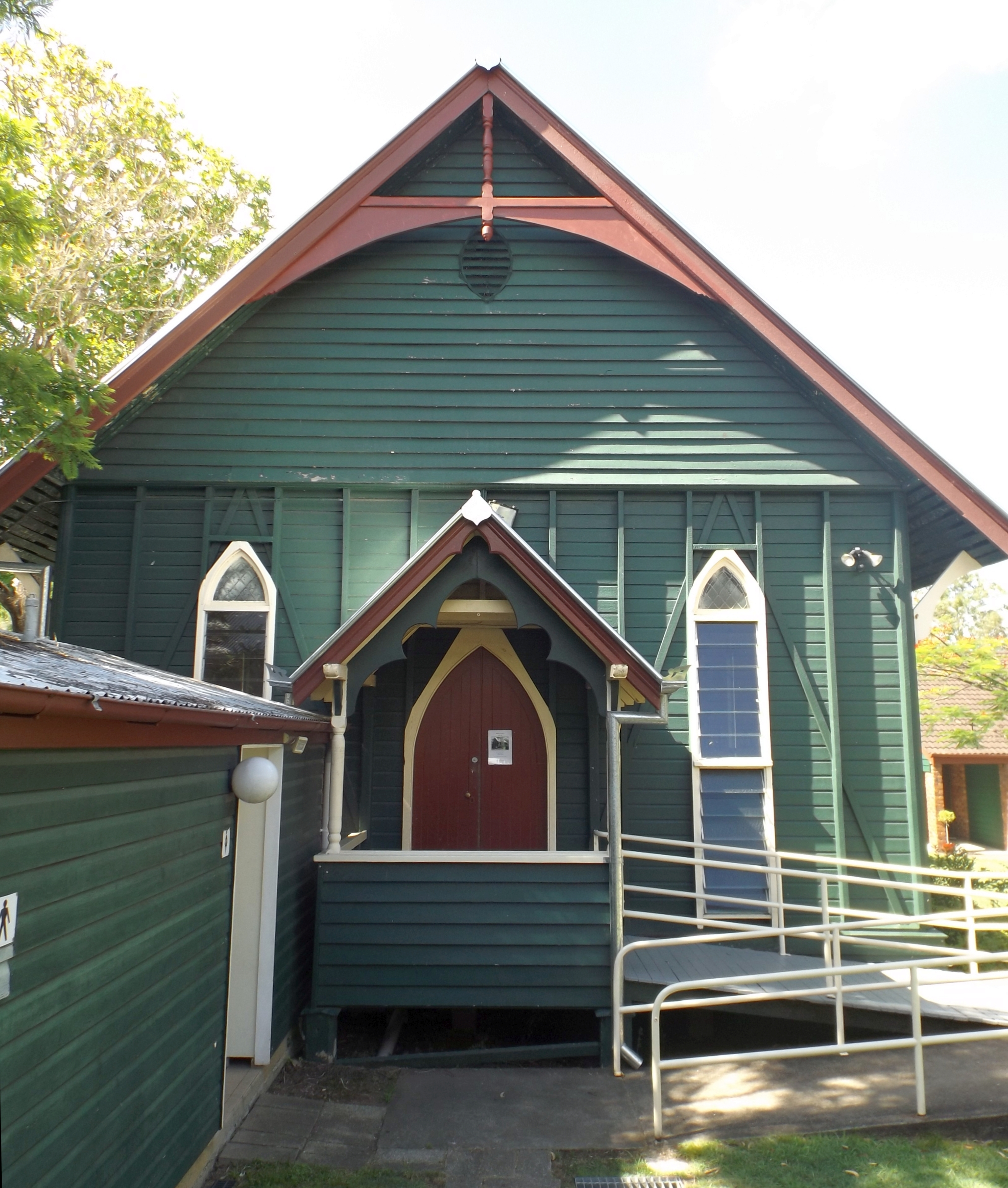 Photo of the entrance to the St Andrews Church Hall at Indooroopilly, Brisbane, Queensland, Australia.